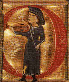 Same as :Image:Perdigon with fiddle.jpg, but reversed.